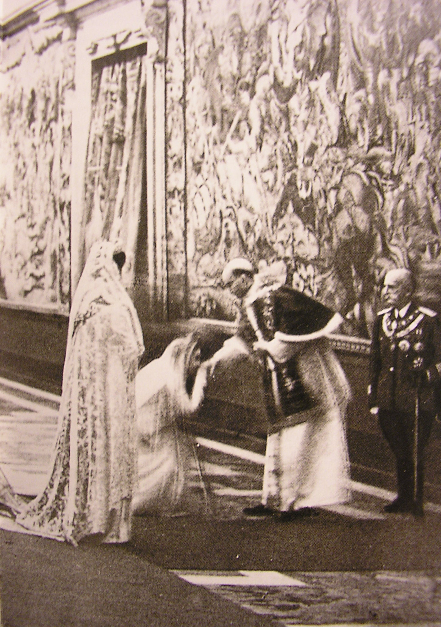 Wikipedia